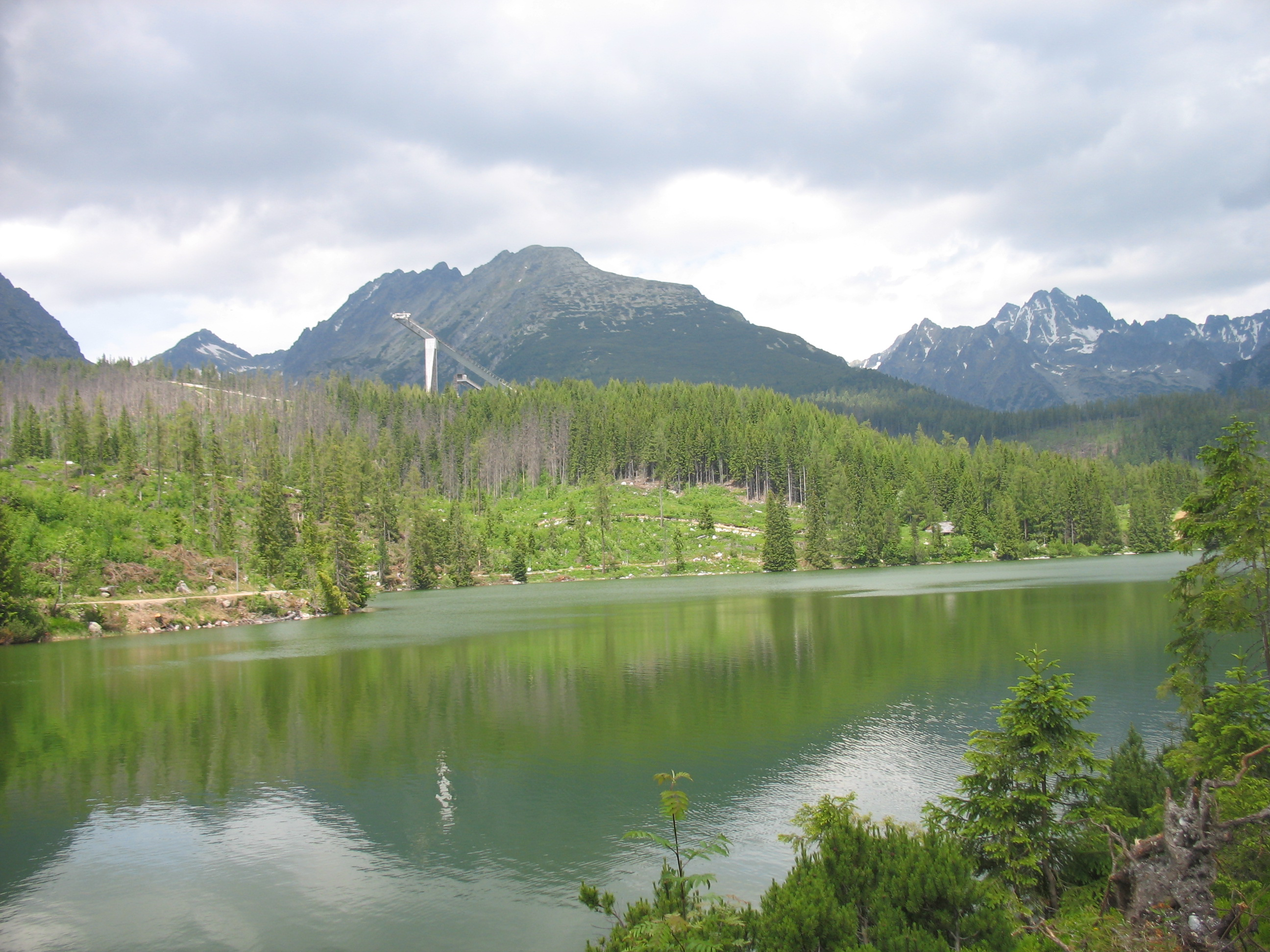 the glacial lake of Štrbské Pleso